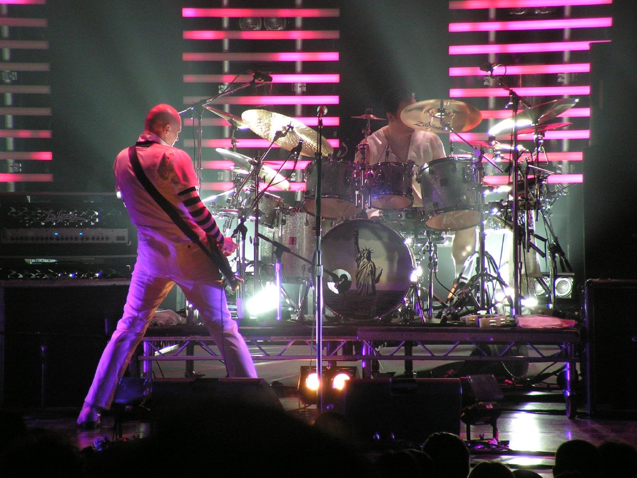 The Smashing Pumpkins at Le Grand Rex in Paris, France. First show back since 2000.